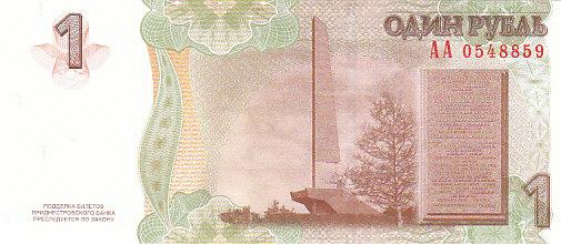 1 Transnistrian ruble